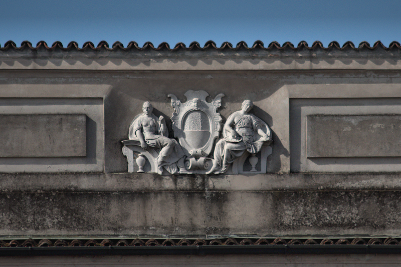 Coat of arm placed of the city gate called Porta Ombriano in Crema (Italy)